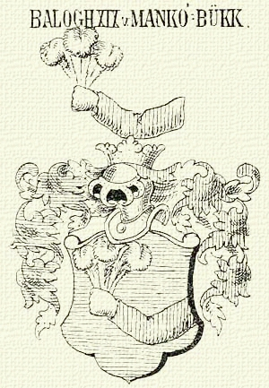 Balogh de Mankó Bük coat of arms